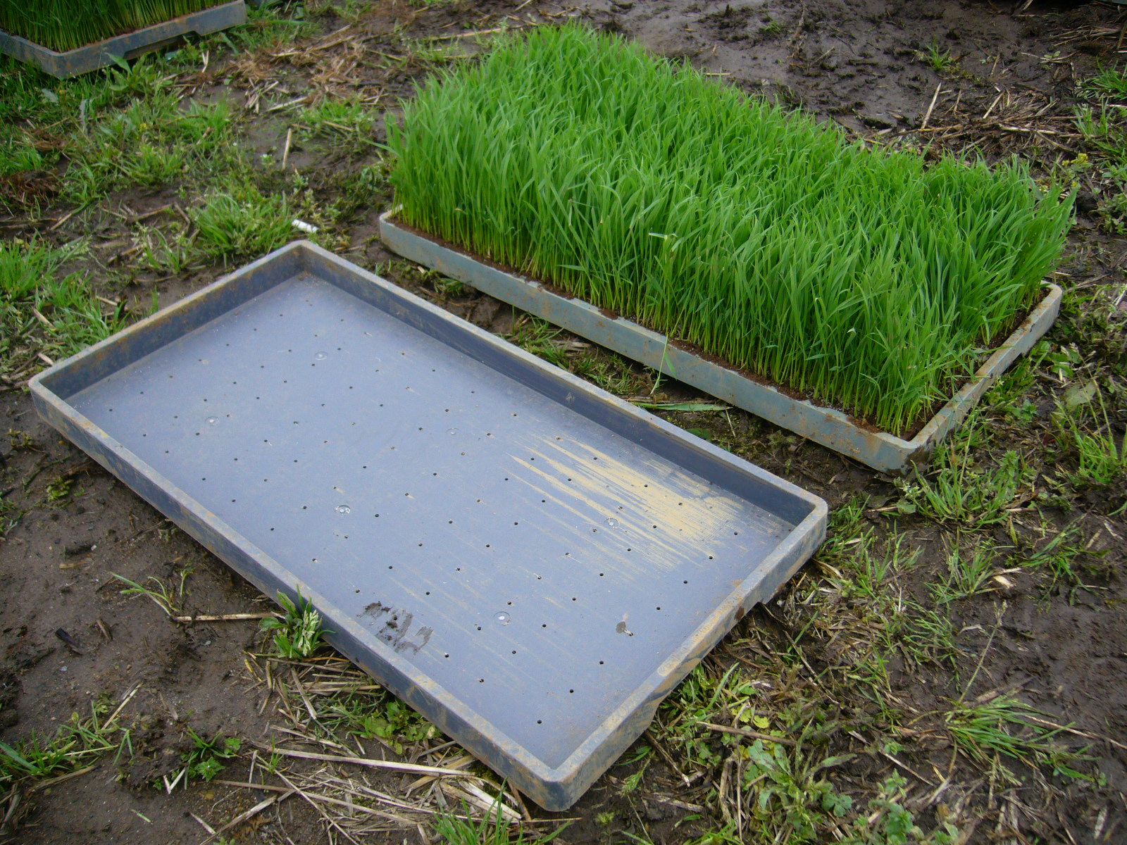 A raising of seedling box of the rice,ikubyoubako,katori-city,japan